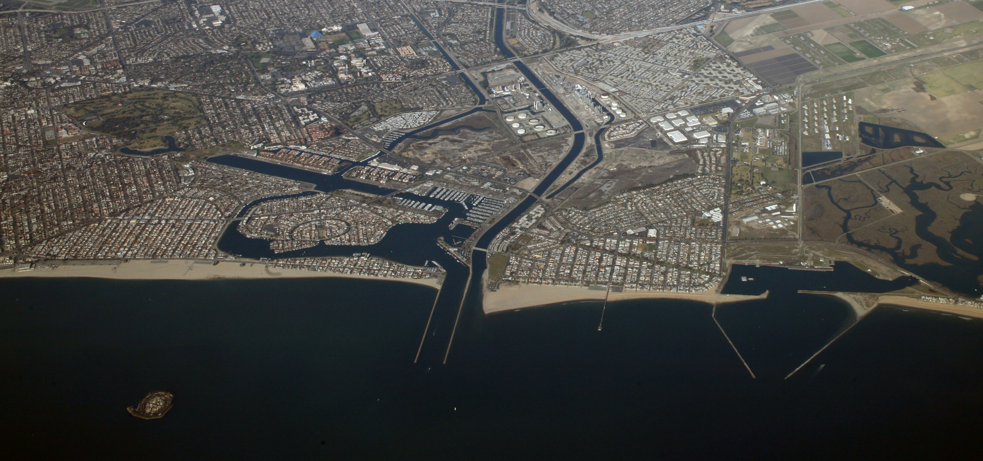 Aerial view of the mouth of San Gabriel River, CA